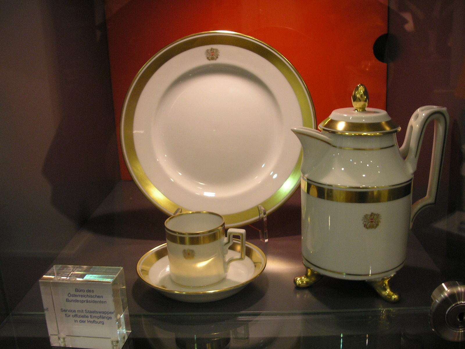 6745 Elisabeth porcelain service from the Porcelain Manufactury Augarten, at the shop on Stock-im-Eisen-Platz 3 in Vienna. Originally this service, provided with the imperial insignia, was made for Emperor Ferdinand (1793-1875). After the Congress of Vienna the chamber service, which has always been in private use, was also used by other members of the imperial family and was one of the preferred designs of Empress Elisabeth.[2] This particular set is used for official functions of the Federal President of Austria and features the coat of arms. ↑ ↑